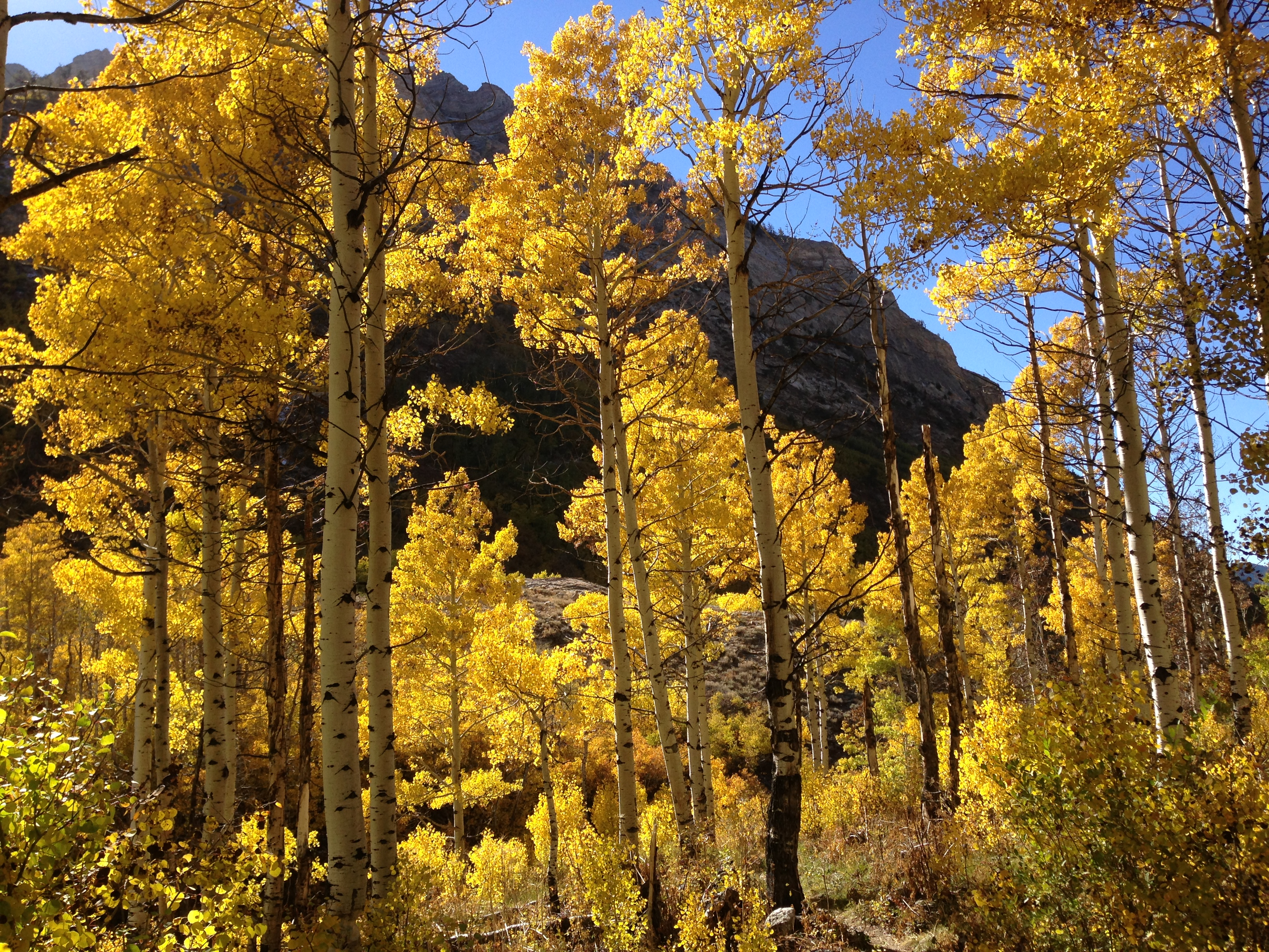 Aspens during autumn along the Changing Canyon Nature Trail in Lamoille Canyon, Nevada